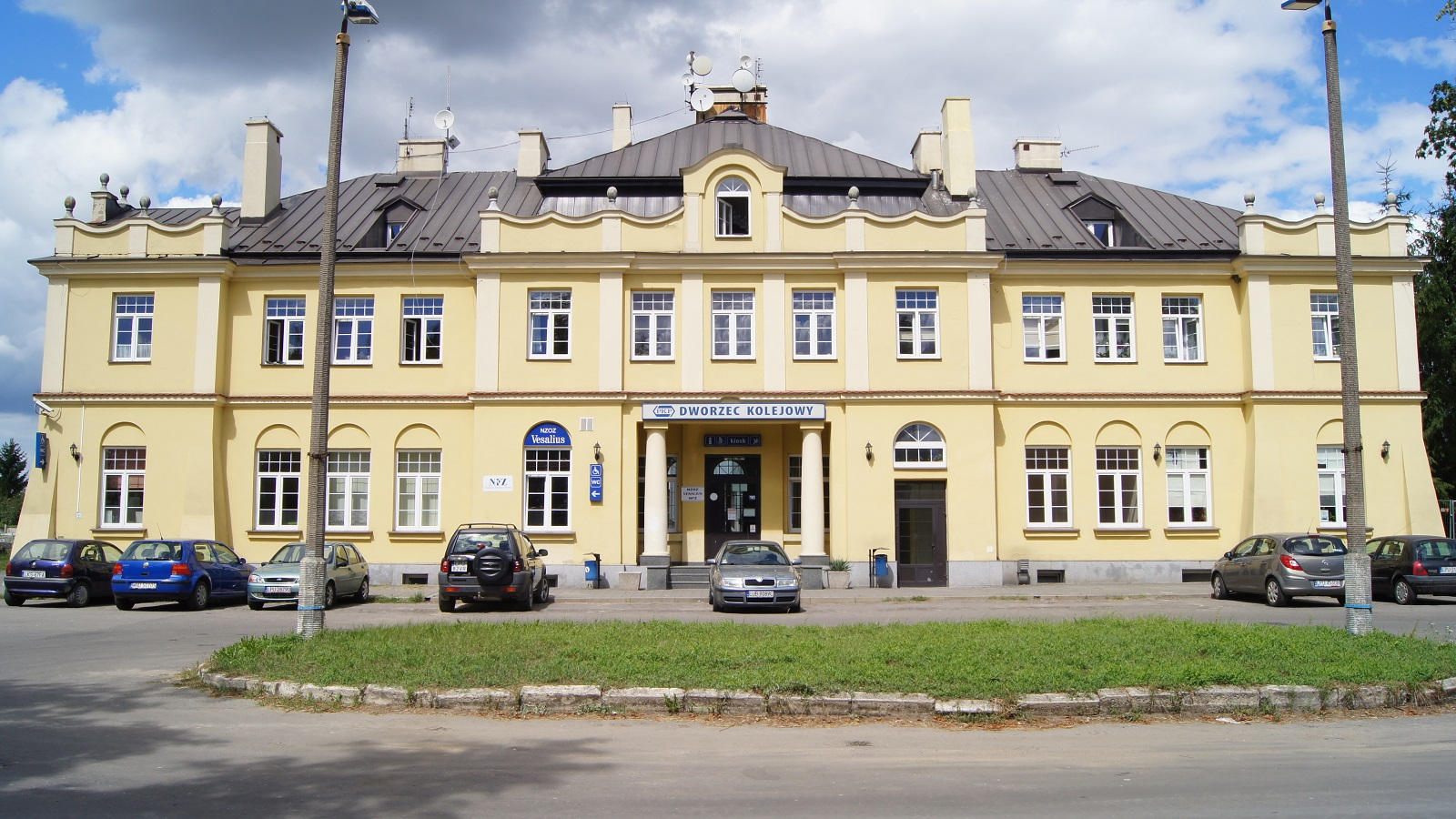 Nałęczów train station, street side, 2018